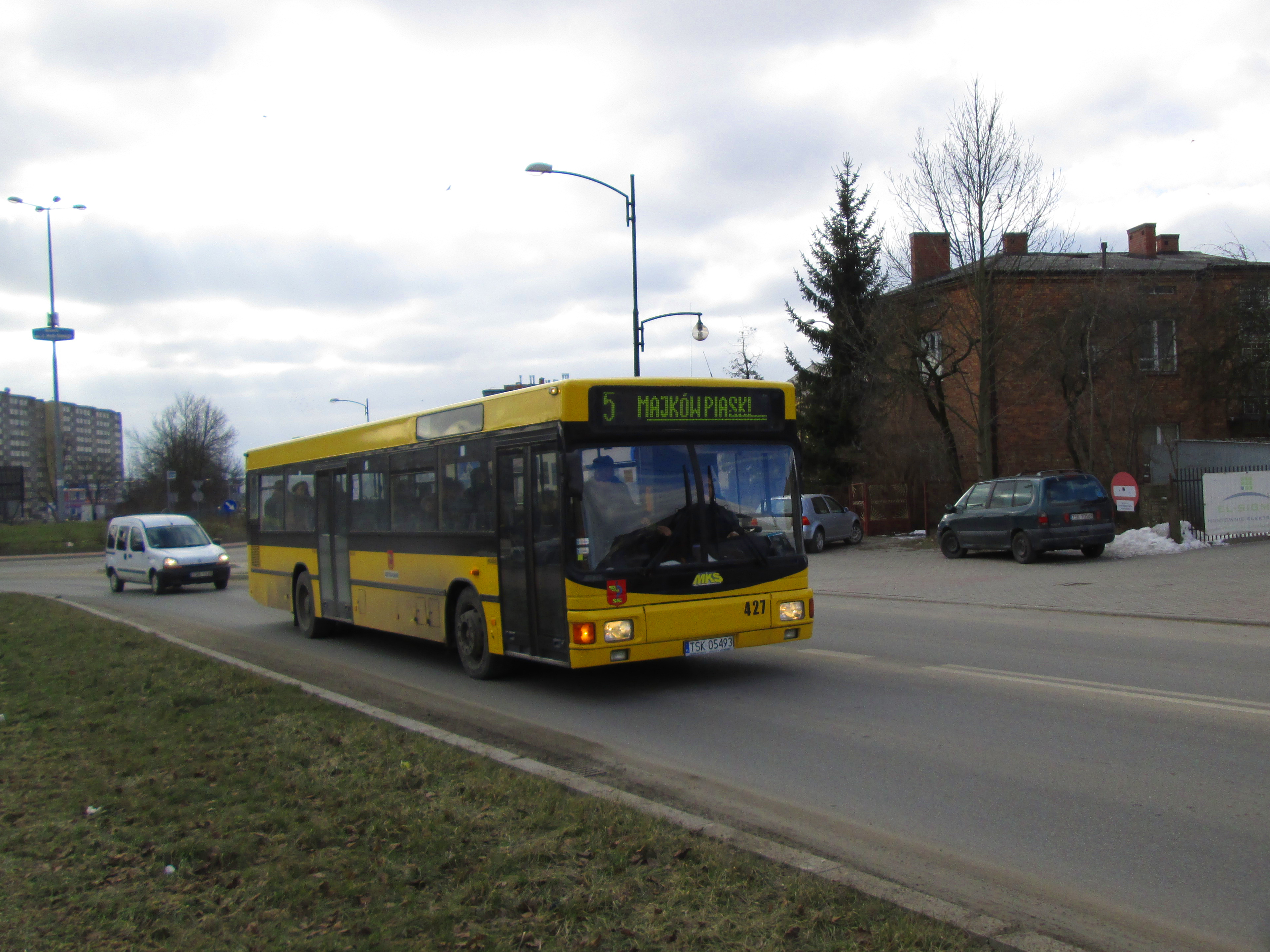 MAN EL202 bus (stock number #427) belonging to MKS, operating line 5 to Majków-Piaski, on Armii Krajowej street in Skarżysko-Kamienna.